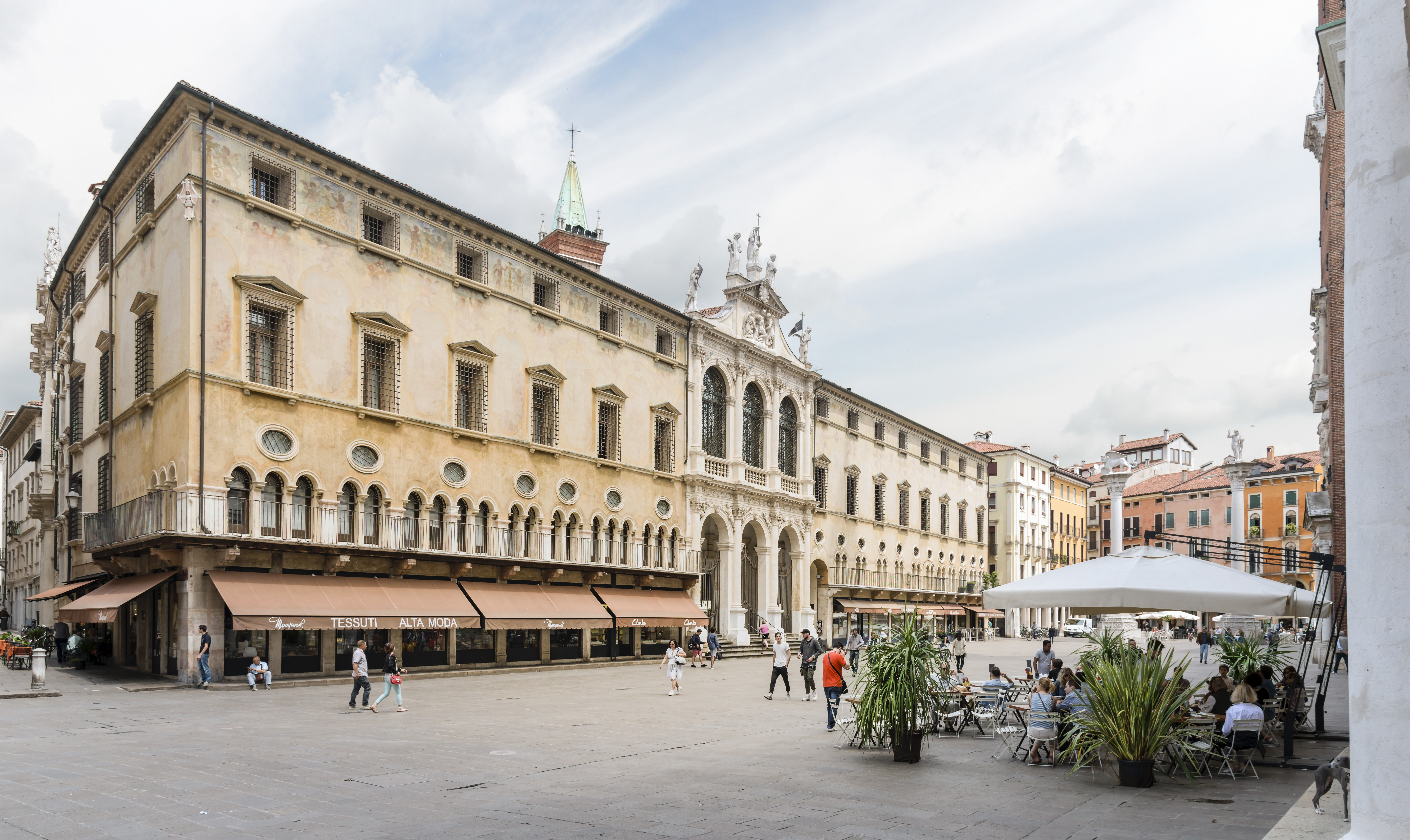 The "Piazza dei Signori" and the Monte Pietà - South West exposure - in Vicenza.